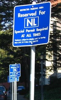 Photograph of a special permit parking sign for Nobel laureates at the University of California, Berkeley.